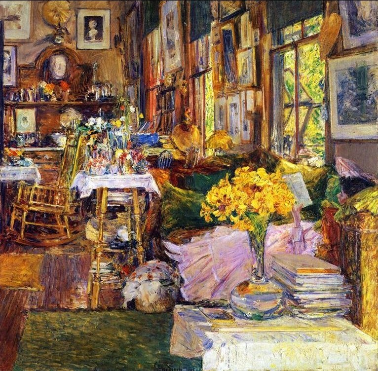 Painting by Clarita Beyer